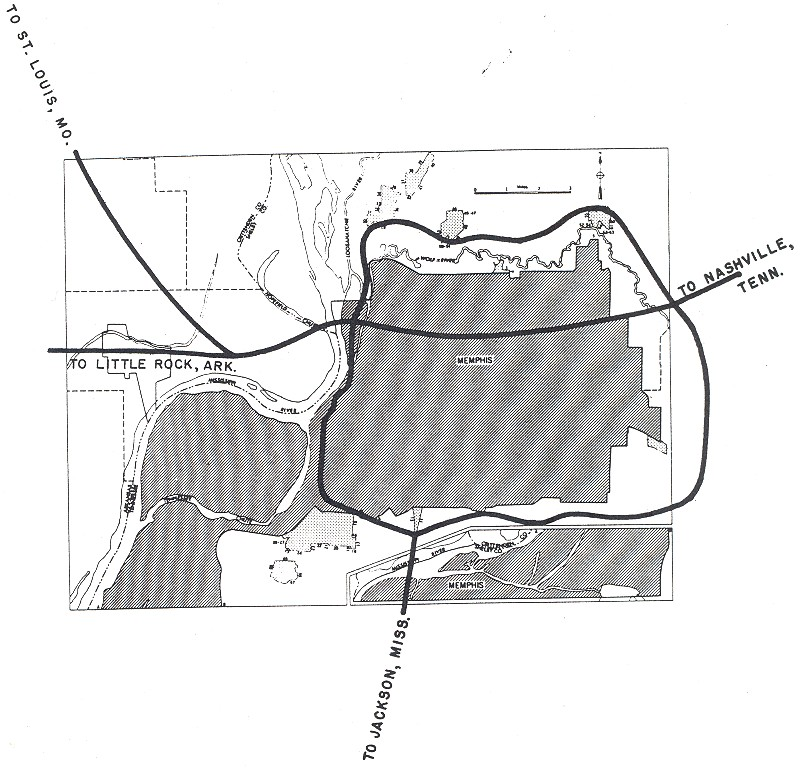 Interstates in today's terms I-40 (never finished through downtown) I-55 I-240